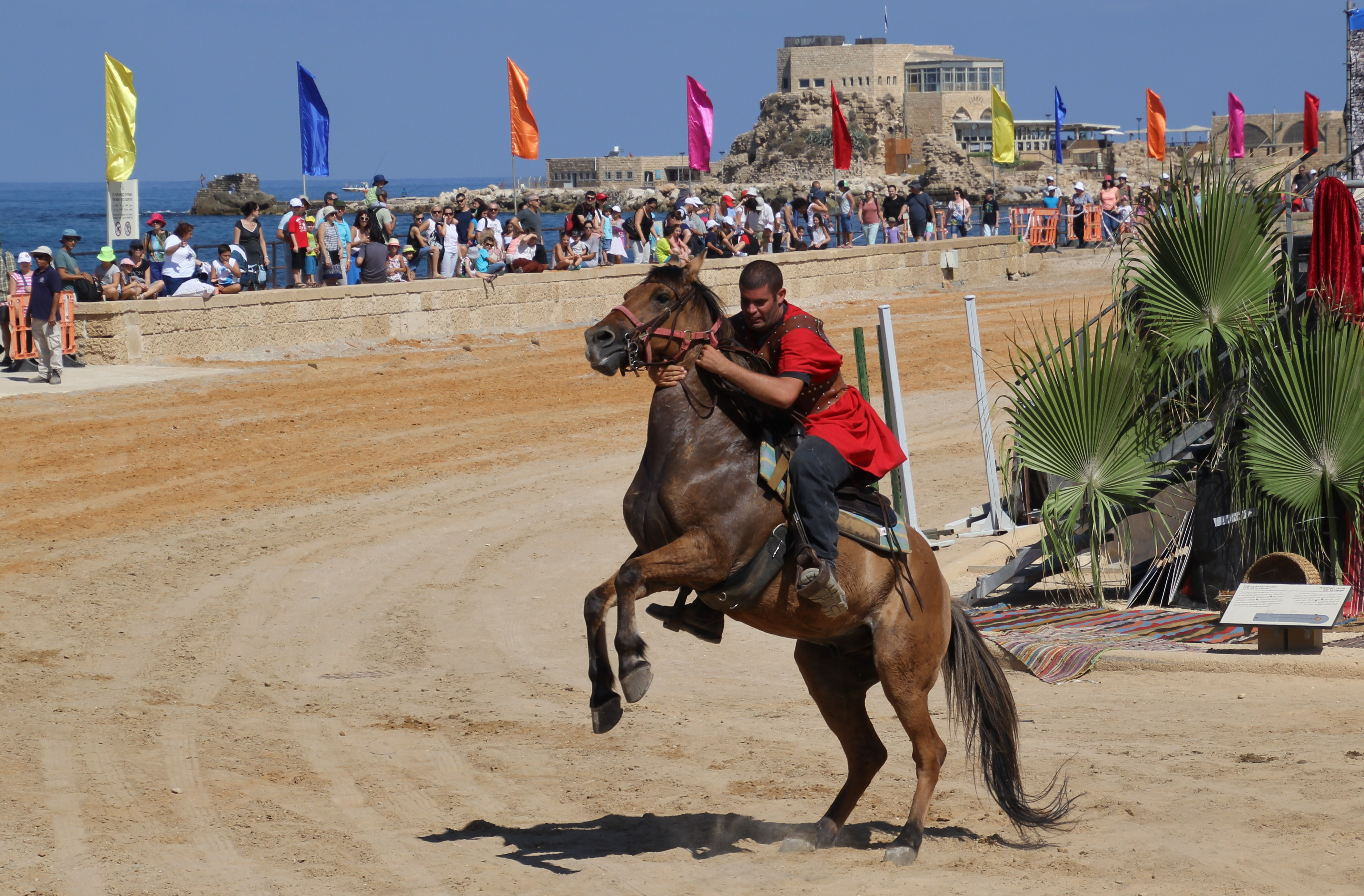 Old Caesarea-Roman style horse show, of the Roman Hippodrome